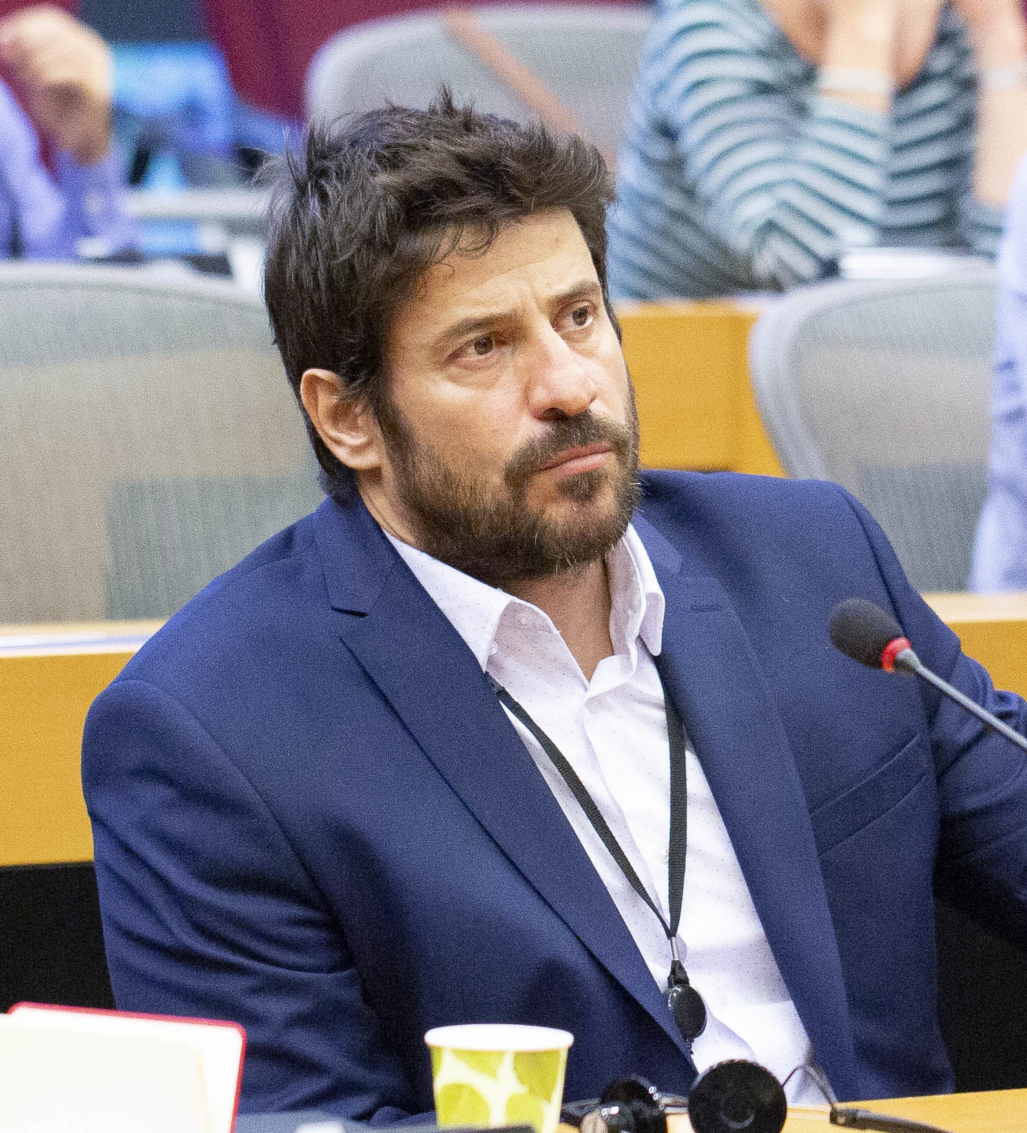 Alexis Georgoulis, MEP